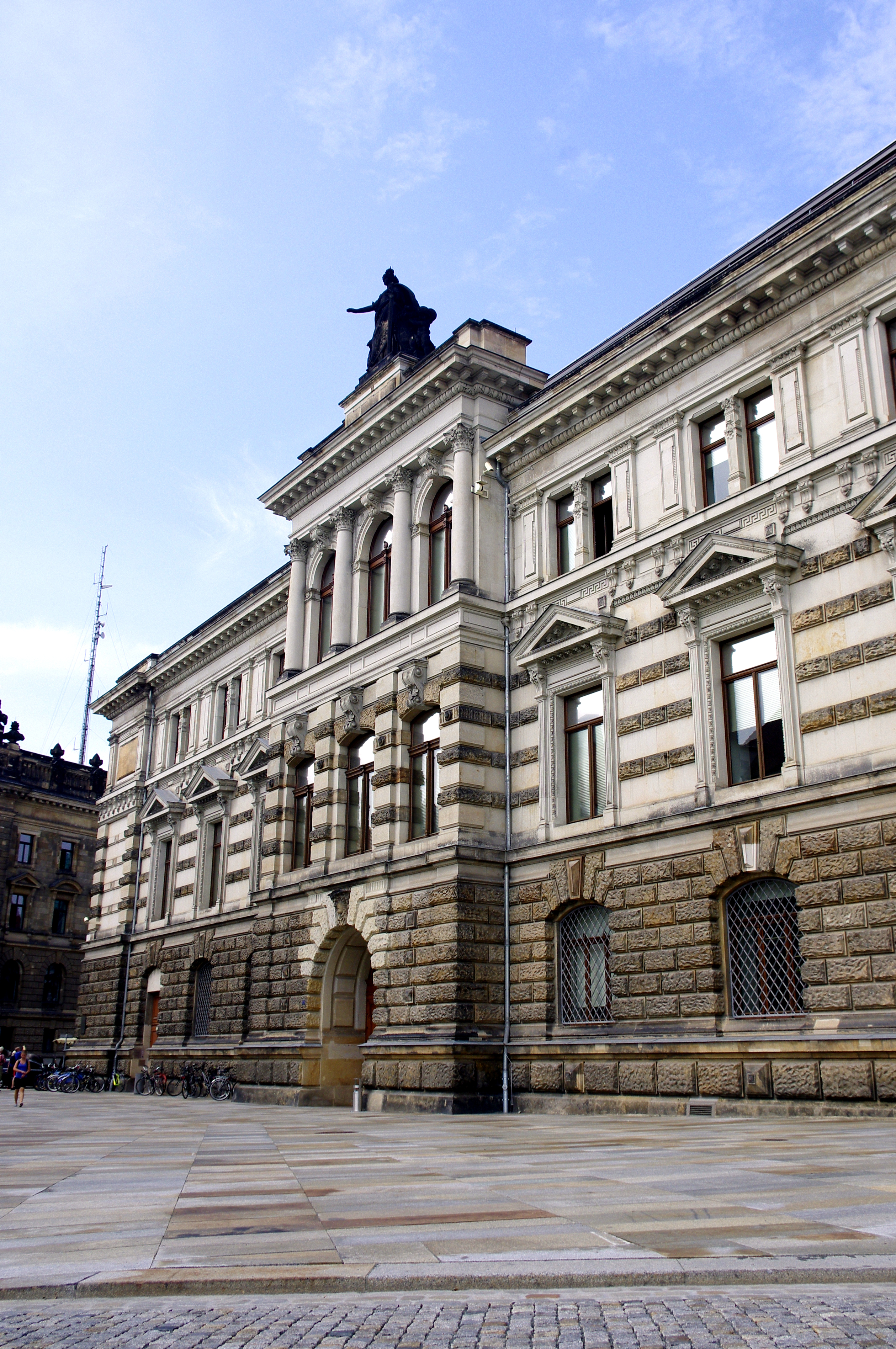 This is an image of the Albertinum in Dresden.